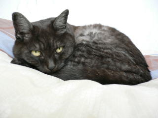 Lying tortoiseshell cat/ liegende Schildpattkatze